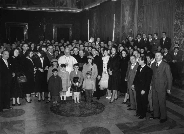 Giovanni XXIII with Circo Orlando Orfei's people